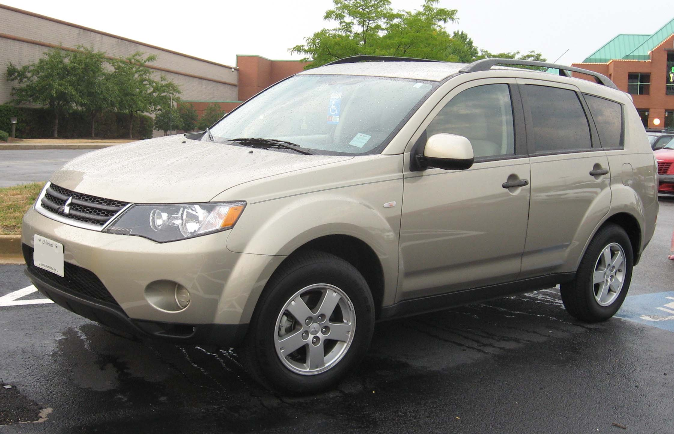 2007 Mitsubishi Outlander photographed in USA.